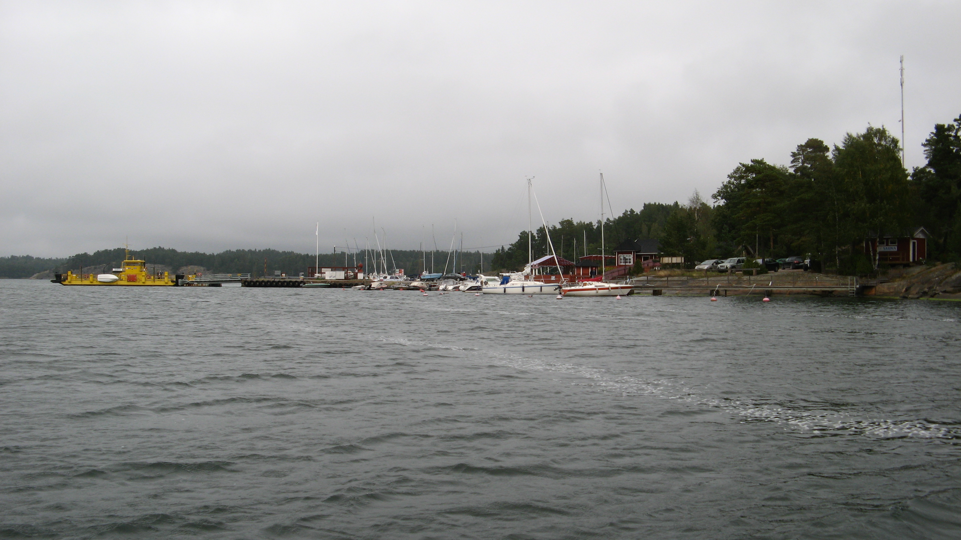 The marina at Pargas port, with the ferry to Sorpo (yellow).